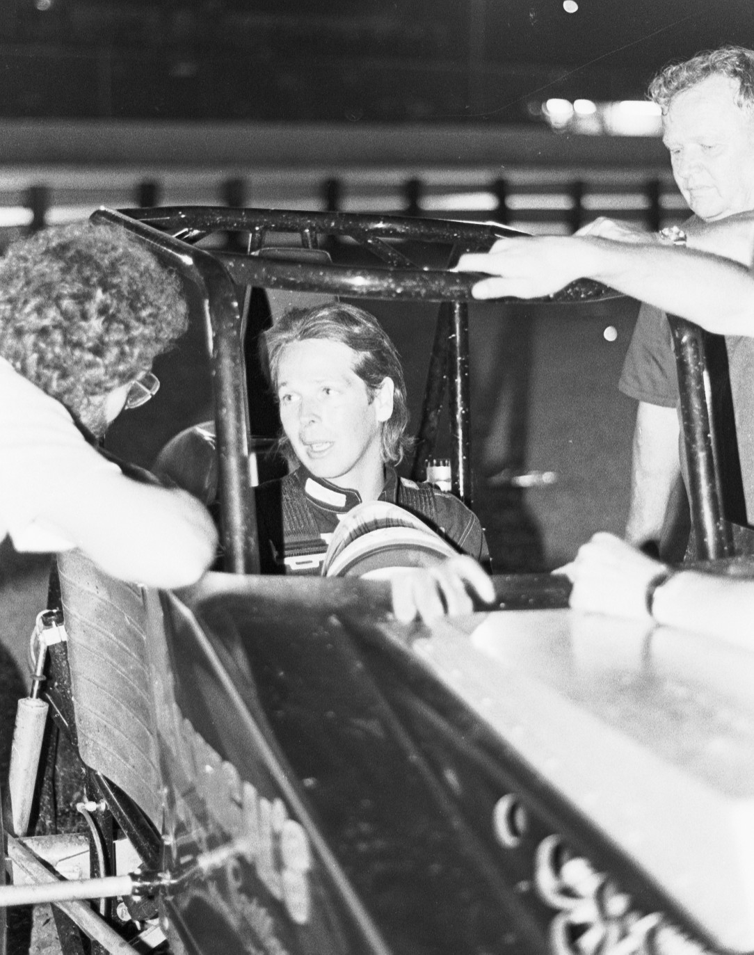 Jac Haudenchild talking with his pit crew